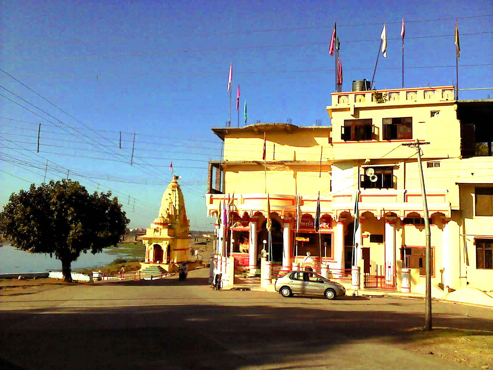 The siddhi vinayak ganesh mandir(Temple),situate at the bank of Kunda river.